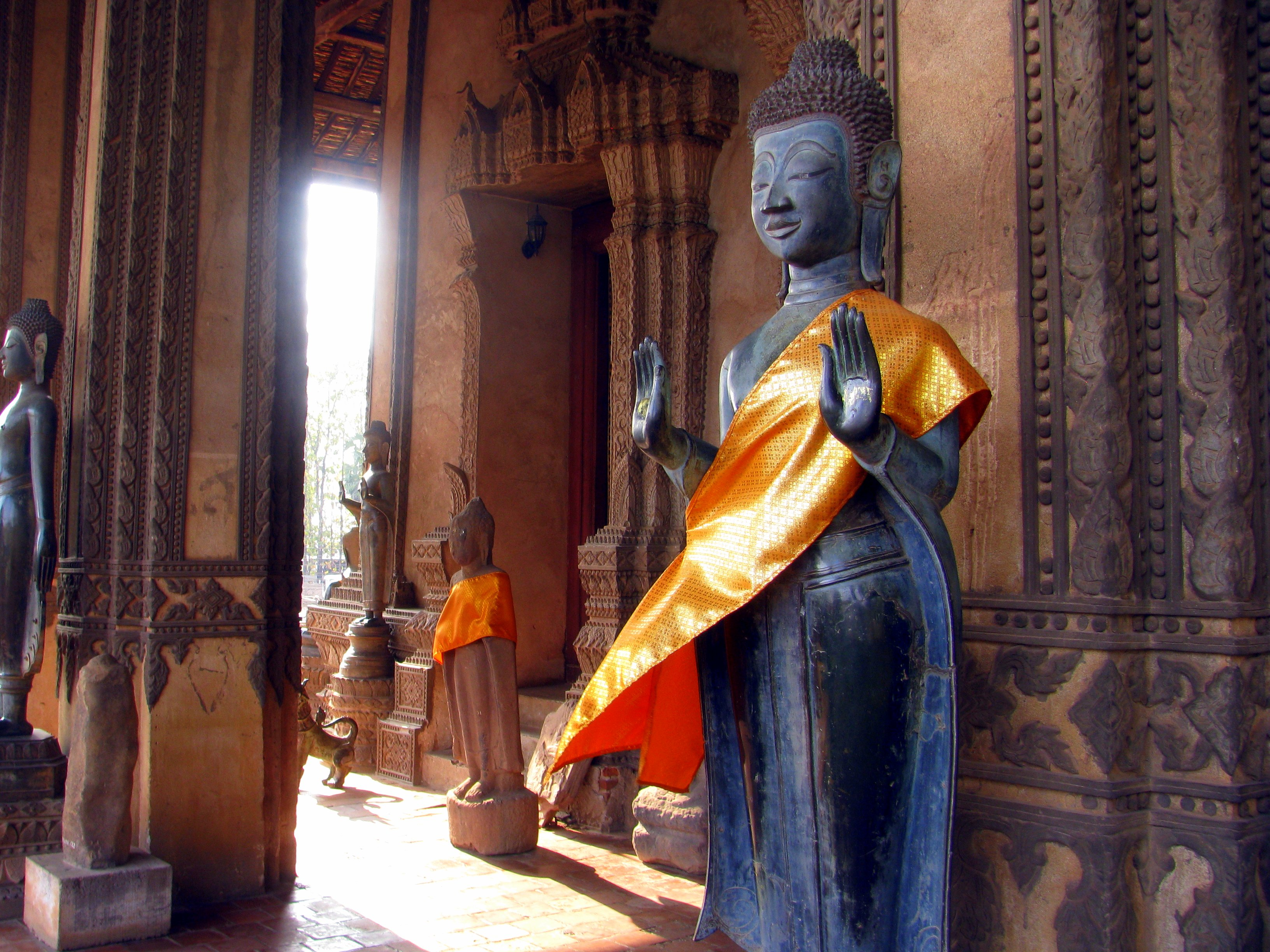 Around Vientiane